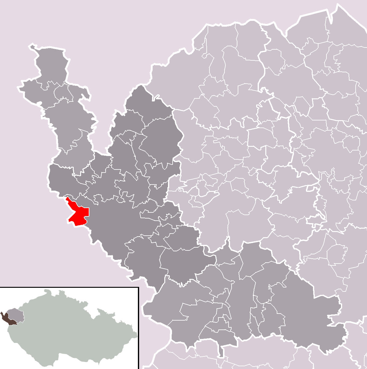 Location of Pomezí nad Ohří municipality within Cheb District and administrative area of Cheb as a Municipality with Extended Competence.